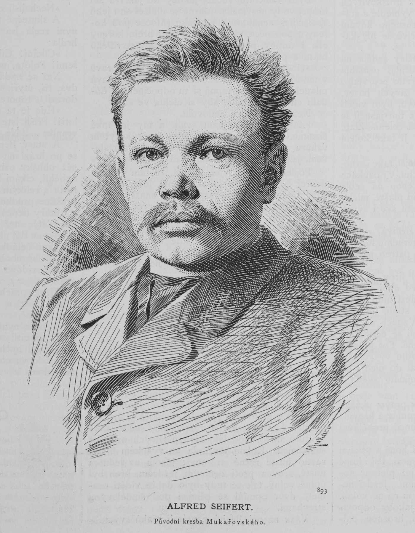 Portrait of Alfred Seifert (1850 - 1901), Czech-German painter